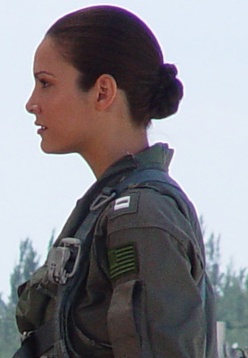 Miss Universe 2001 Denise Quiñones, right, cuts a scene on the aircraft ramp here at Homestead Air Reserve Base, Fla. on March 27. She plays the role of Rachel Starling, an F-18 pilot and potential love interest of "Aquaman." The Warner Brothers crew shot scenes at five locations on the reserve base. (US Air Force Reserve Photo by Lisa M. Macias)